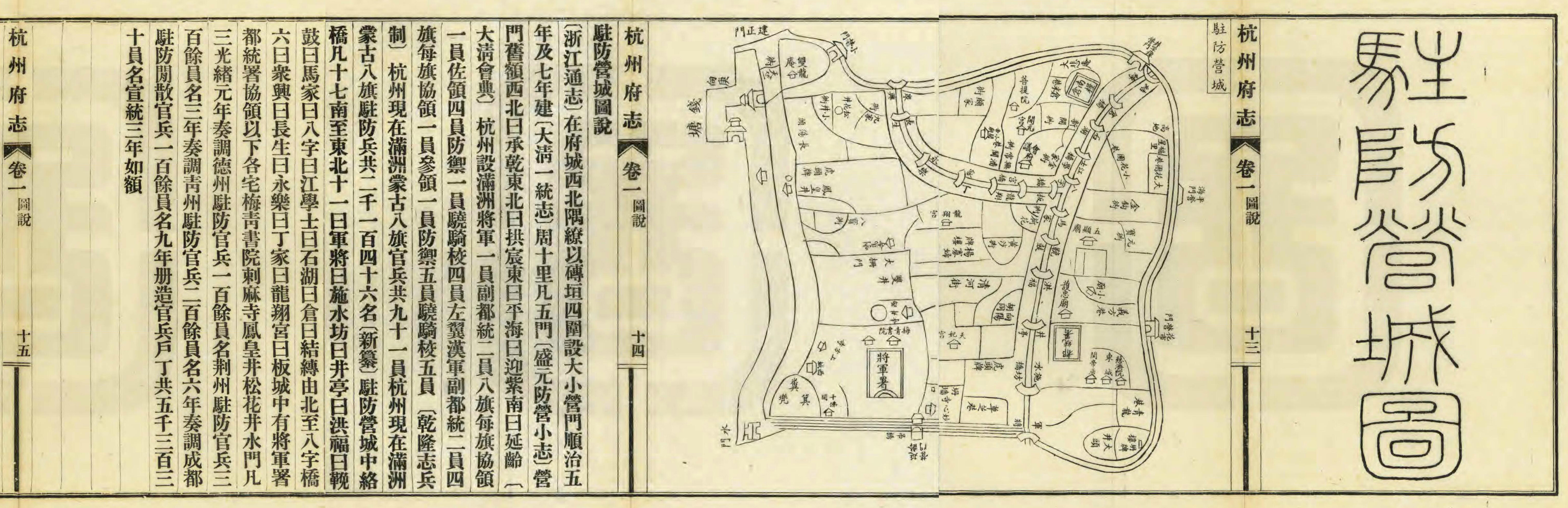 (Rough translation via Google Translate: Hangzhou flag battalion stationed.